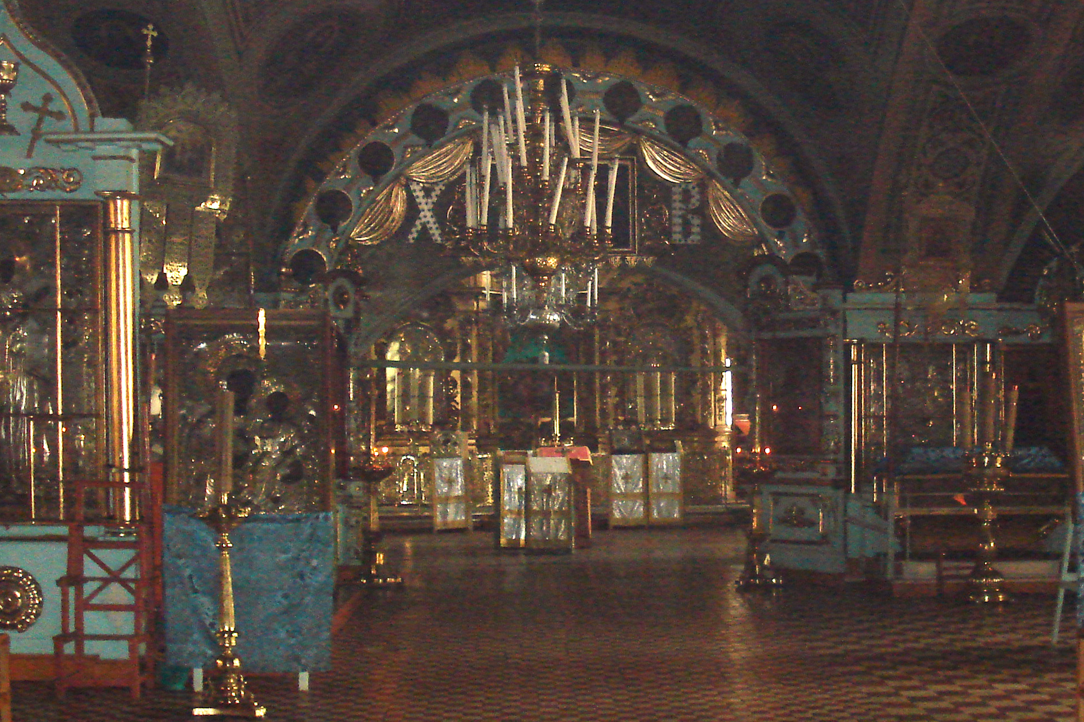 The Interior of Trinity Church of the village of Arefino. Nizhegorodskaya oblast. Russia.